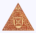 Ex Libris Fernando Teixeira